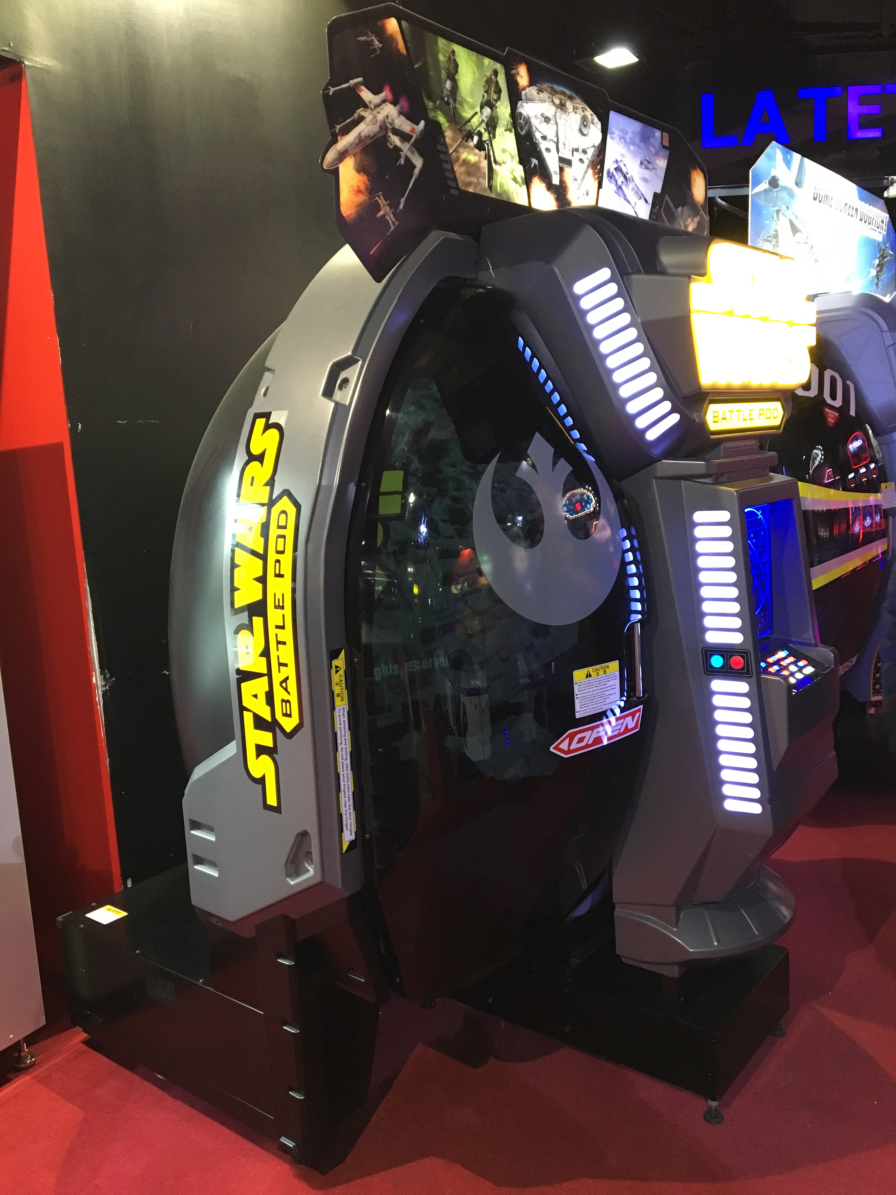 Star Wars: Battle Pod cabinet - left 3